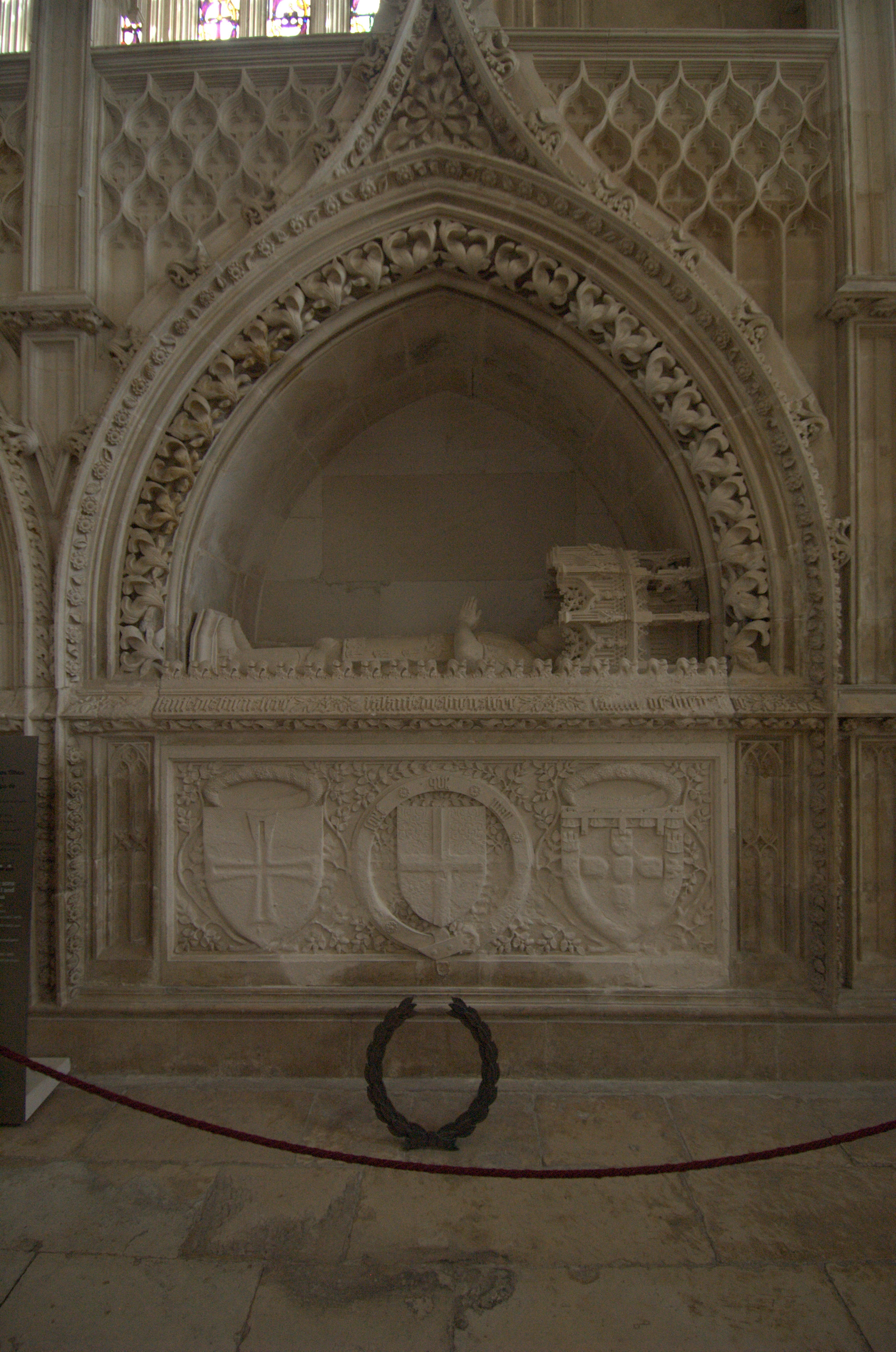 Gothic tomb of Henry the Navigator in the Batalha Monastery, Portugal